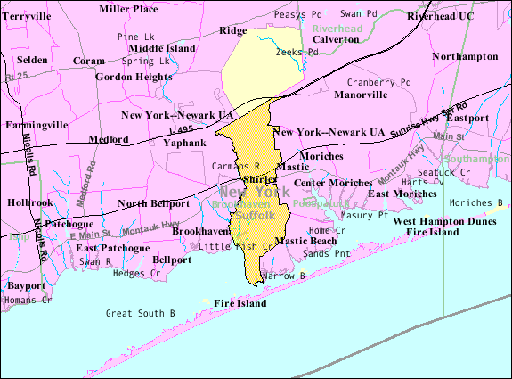 U.S. Census 2000 reference map for Shirley